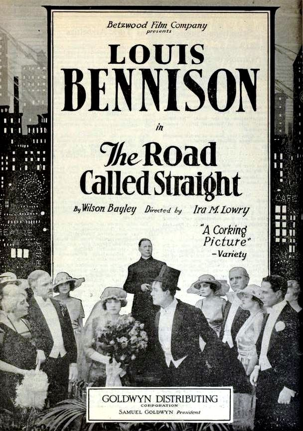 Ad for the American western comedy film The Road Called Straight (1919) with Ormi Hawley and Louis Bennison, on page 6 of the June 1, 1919 Film Daily.